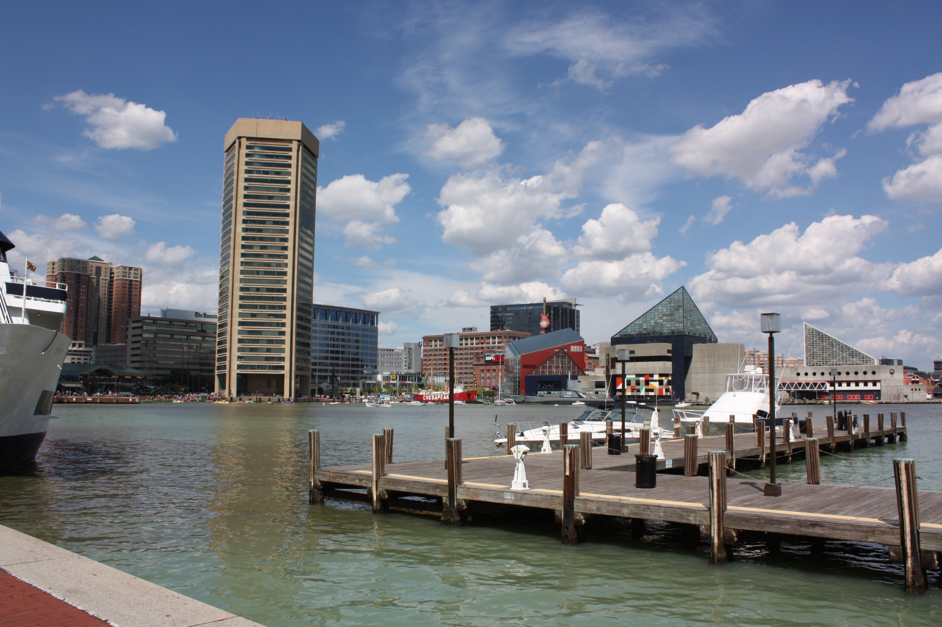 The Inner Harbour in Baltimore, Maryland